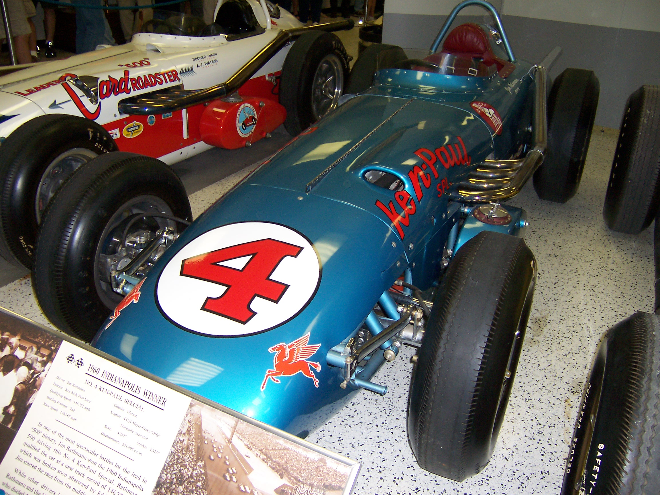 Image of the winning car of the 1960 Indianapolis 500 (Jim Rathmann). Photo was taken at the Indianapolis Motor Speedway Hall of Fame Museum.